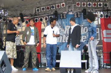 BroSis in Celle